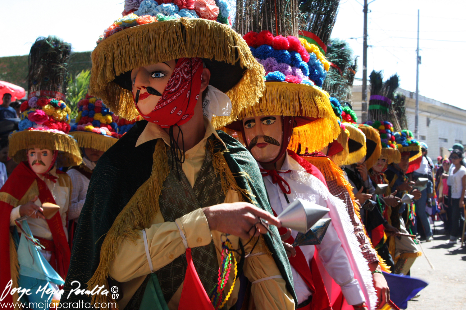 Toro Huaco is a traditional Nicaraguan dance that is part of the Indian and Spanish cultural heritage of the country.